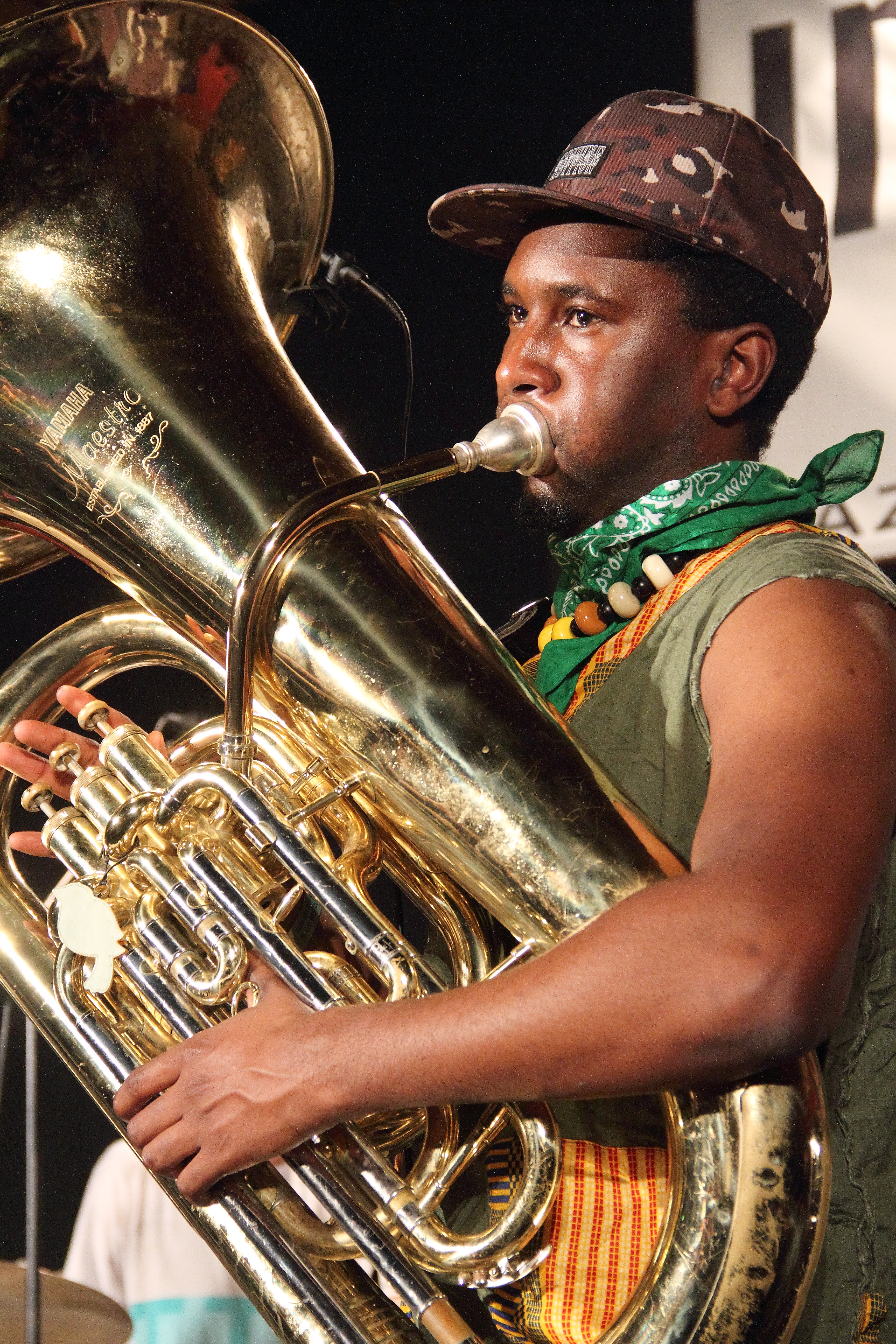 Shabaka Hutchings and Sons of Kemet at INNtöne Jazzfestival 2018.